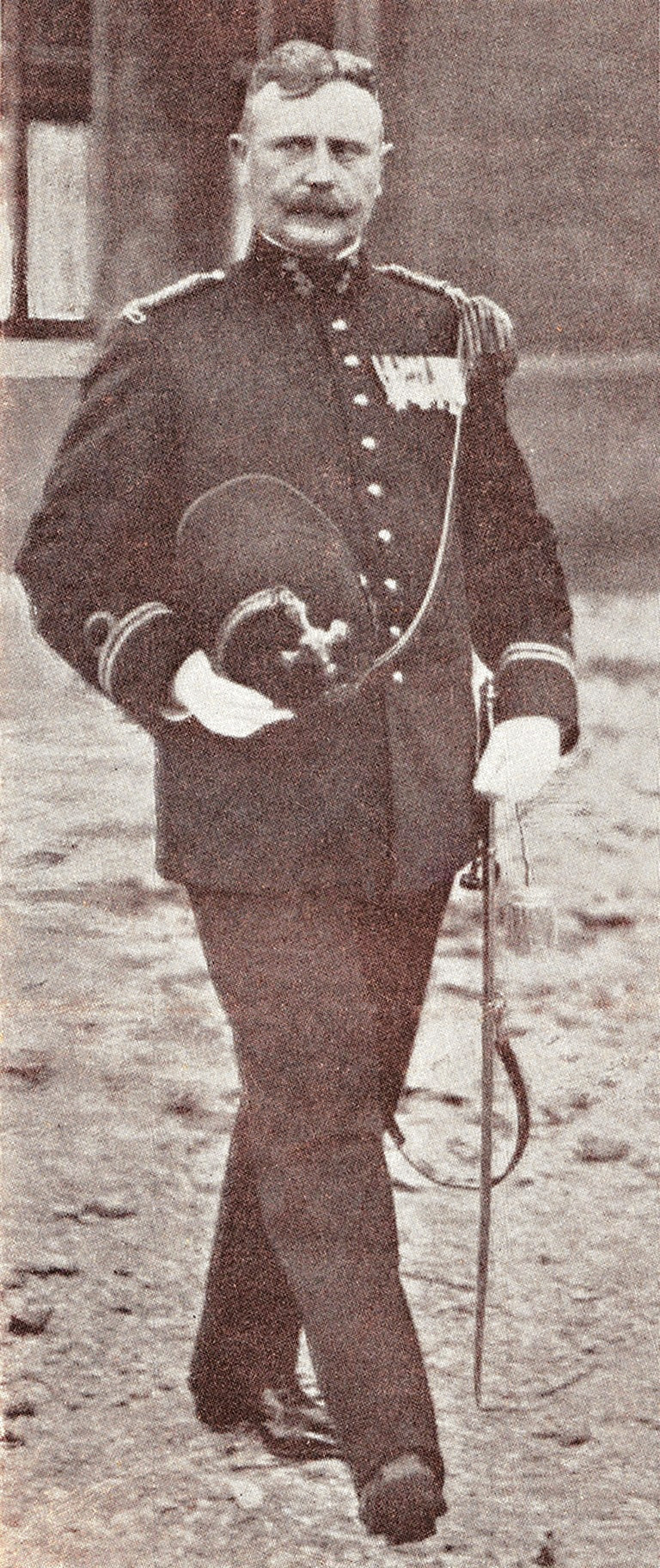 J.A.H.L. Melvill van Carnbee